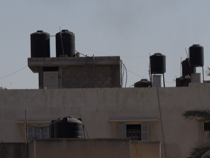 Israeli Air Forces bombing over Ansar site. 7.8.2014